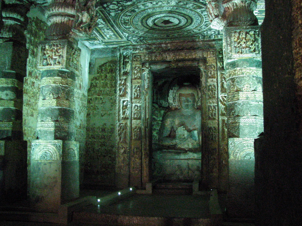 This is shotted in extreme low light in cave No.1 . ! This is actually Cave 2. पाटलिपुत्र (talk) 11:27, 30 October 2017 (UTC) Ajanta Caves in Maharashtra, India are rock-cut cave monuments dating back to the second century BCE and containing paintings and sculpture considered to be masterpieces of both "Buddhist religious art" ... (Text from )